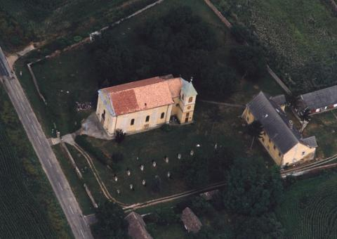 Máriakéménd, Hungary, aerialphotography This is a photo of a monument in Hungary. Identifier: 1503